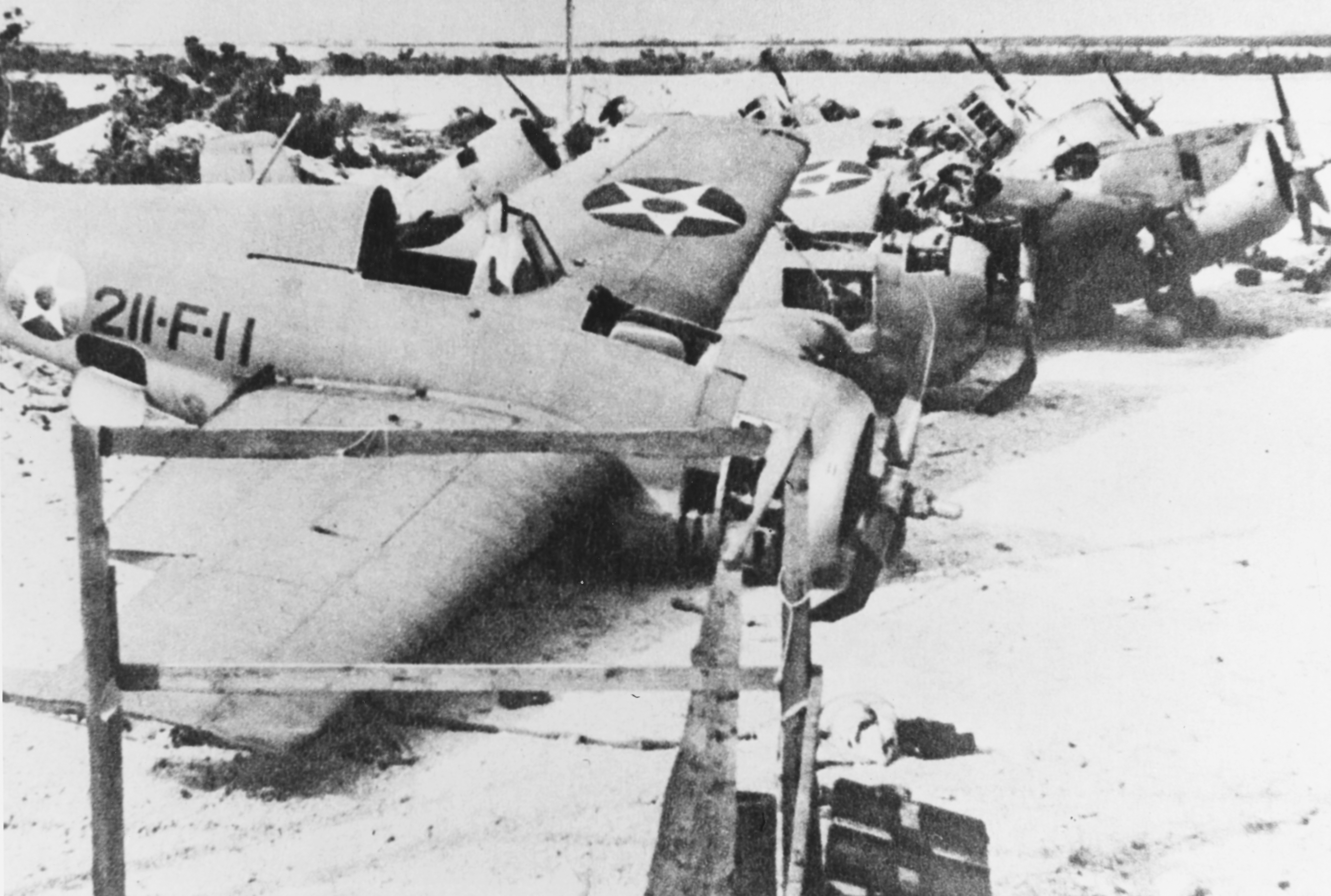 Wrecked U.S. Marine Corps Grumman F4F-3 Wildcat" fighters of Marine Fighting Squadron 211 (VMF-211), photographed by the Wake Island airstrip sometime after the Japanese captured the island on 23 December 1941. There appear to be at least seven F4Fs in this group. The plane in the foreground, "211-F-11" was flown by Captain Henry T. Elrod during the 11 December attacks that sank the Japanese destroyer Kisaragi. Damaged beyond repair at that time, "211-F-11" was subsequently used as a source of parts to keep other planes operational.